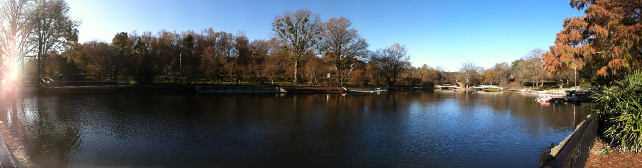 Pullen Park pond before opening